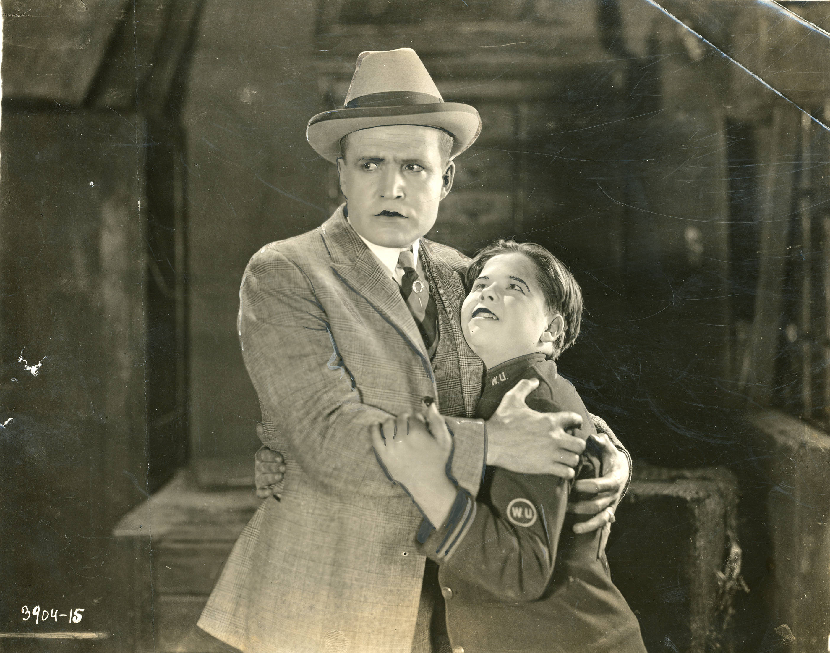 Trifling with Honor. From the back: "'I'm sure glad you come, Bat, 'cause them crooks was trying to frame you.' Rockliffe Fellowes as Bat Shugrue and Buddy Messinger as Jimmy Hunt in a scene from the Universal Jewel production Trifling with Honor." Subjects: motion pictures, actors